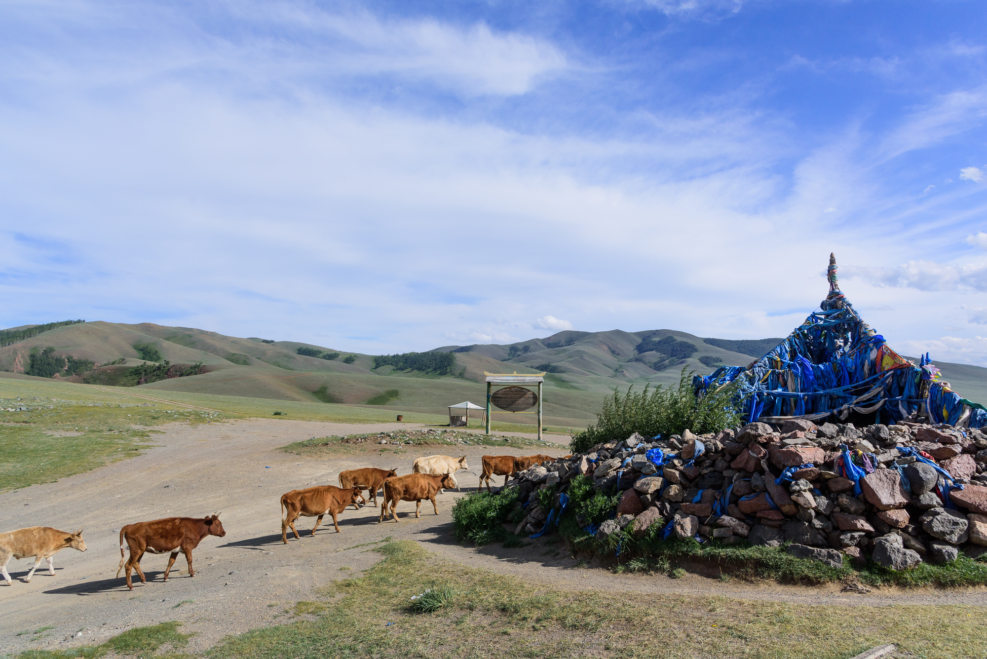 A Ovoo (Oboo) on the highest point of a mountain road. Between Uureg lake and Ulaangom. In northwestern mongolia.